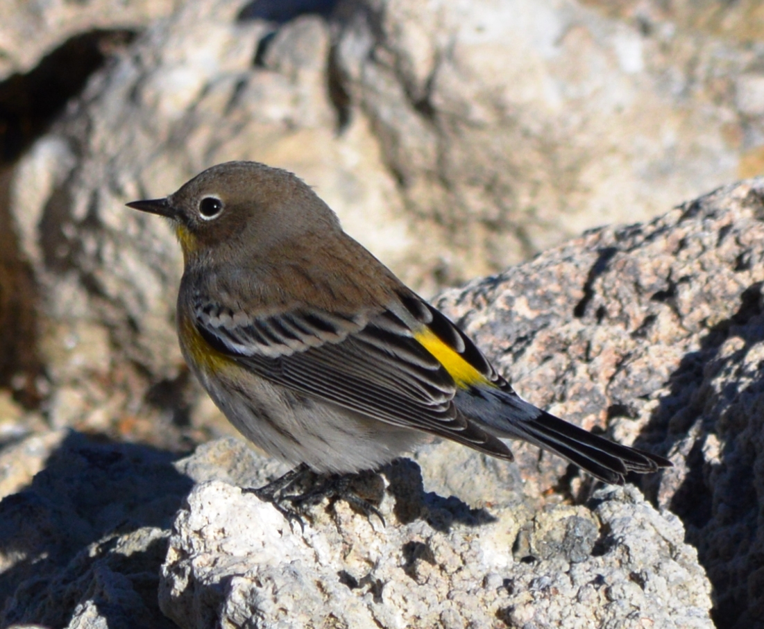 Female Audubon's Warbler (now Setophaga auduboni, formerly Setophaga coronata auduboni) on tufa, as seen in Mono Lake's "South Tufa" area. The Audubon's Warbler is a western variation of what has been known as the Yellow-rumped Warbler (Setophaga coronata). Its eastern counterpart is called the Myrtle Warbler (now Setophaga coronata, formerly Setophaga coronata coronata). These two and the Goldman's Warbler (Setophaga goldmani), which is the Guatemalan version, are now classified as three separate species per IOC. IOC (see IOC Version 3.1 (April 30, 2012)) also reports that the Black-fronted Warbler (Setophaga nigrifrons), the Mexican variety, is now considered conspecific with auduboni per Brelsford et al 2011, Milá et al 2011, AOU/NACC 2010-A-3. According to the Mono Lake Committee's bird list, both Audubon's and Myrtle Warblers have been seen in the Mono Basin. The distinctive difference between Audubon's and Myrtle is that the former's throat area is also yellow, while the latter's is white. Males of both species also have a yellow crown. has tips on identifying different types of Yellow-rumped Warblers. Special thanks to User:MPF for providing guidance on the species split.